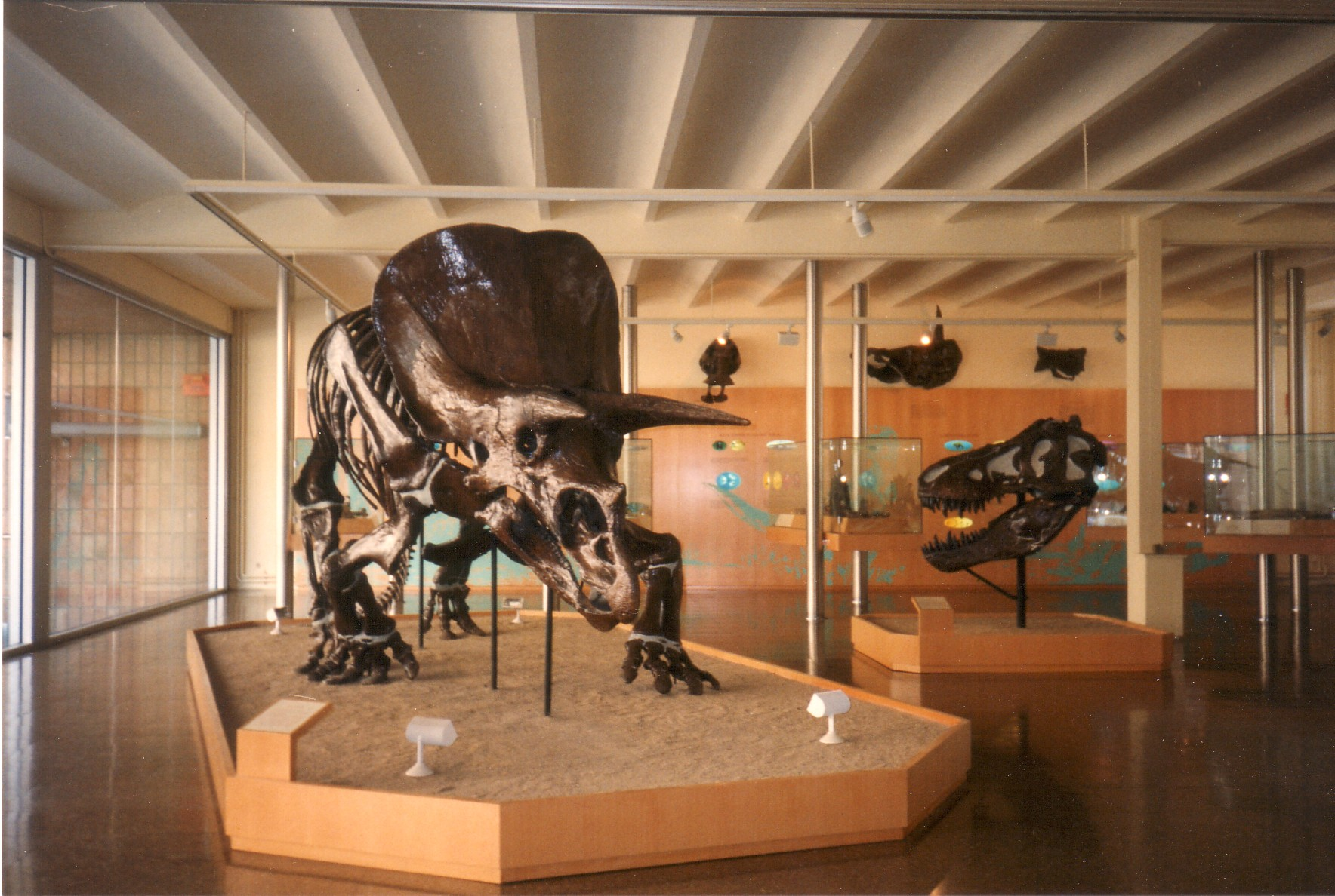 Old main hall of the Institut de Paleontologia Miquel Crusafont, Sabadell, Catalonia.